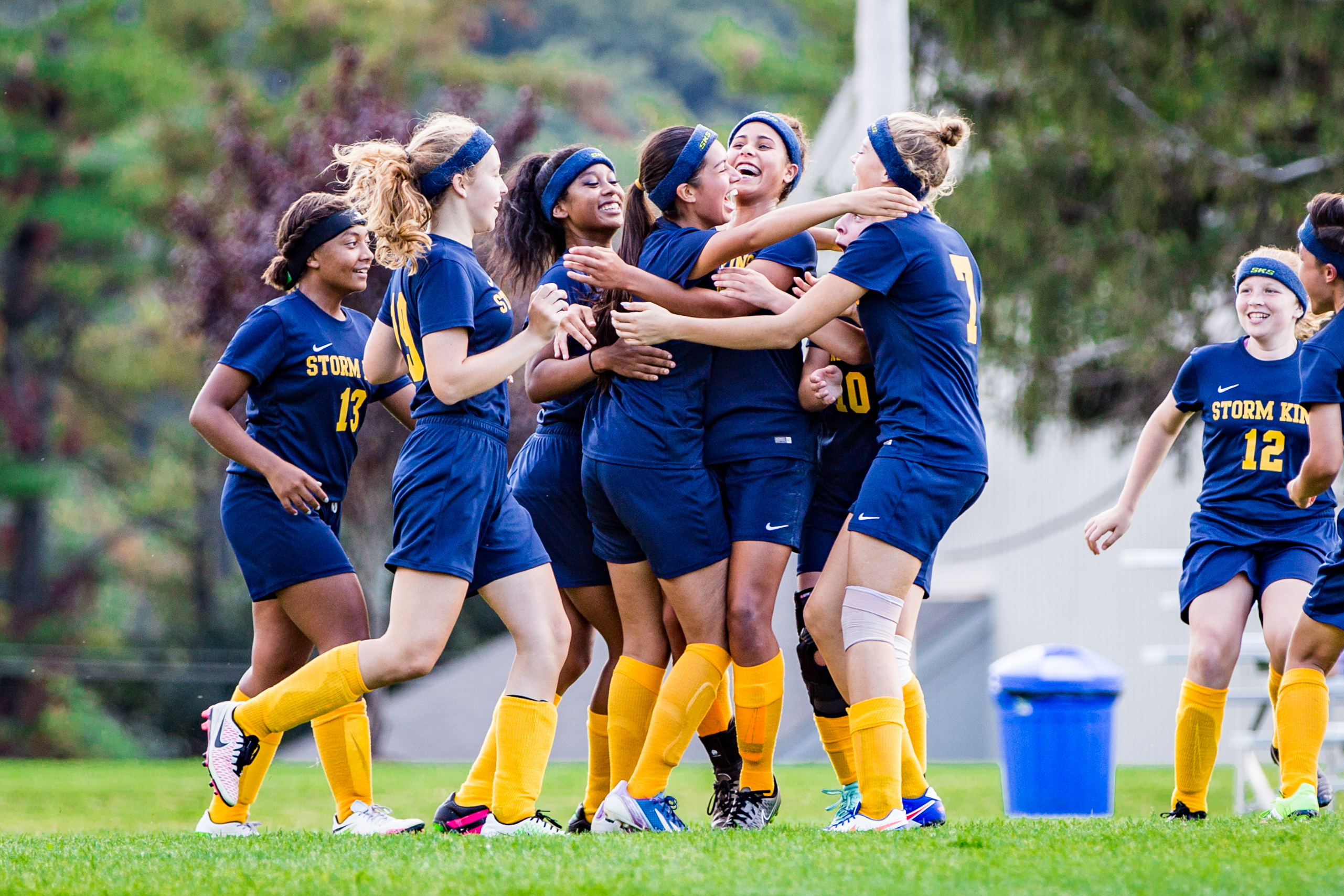 Girls soccer programs captured league titles in 2016 and 2017.